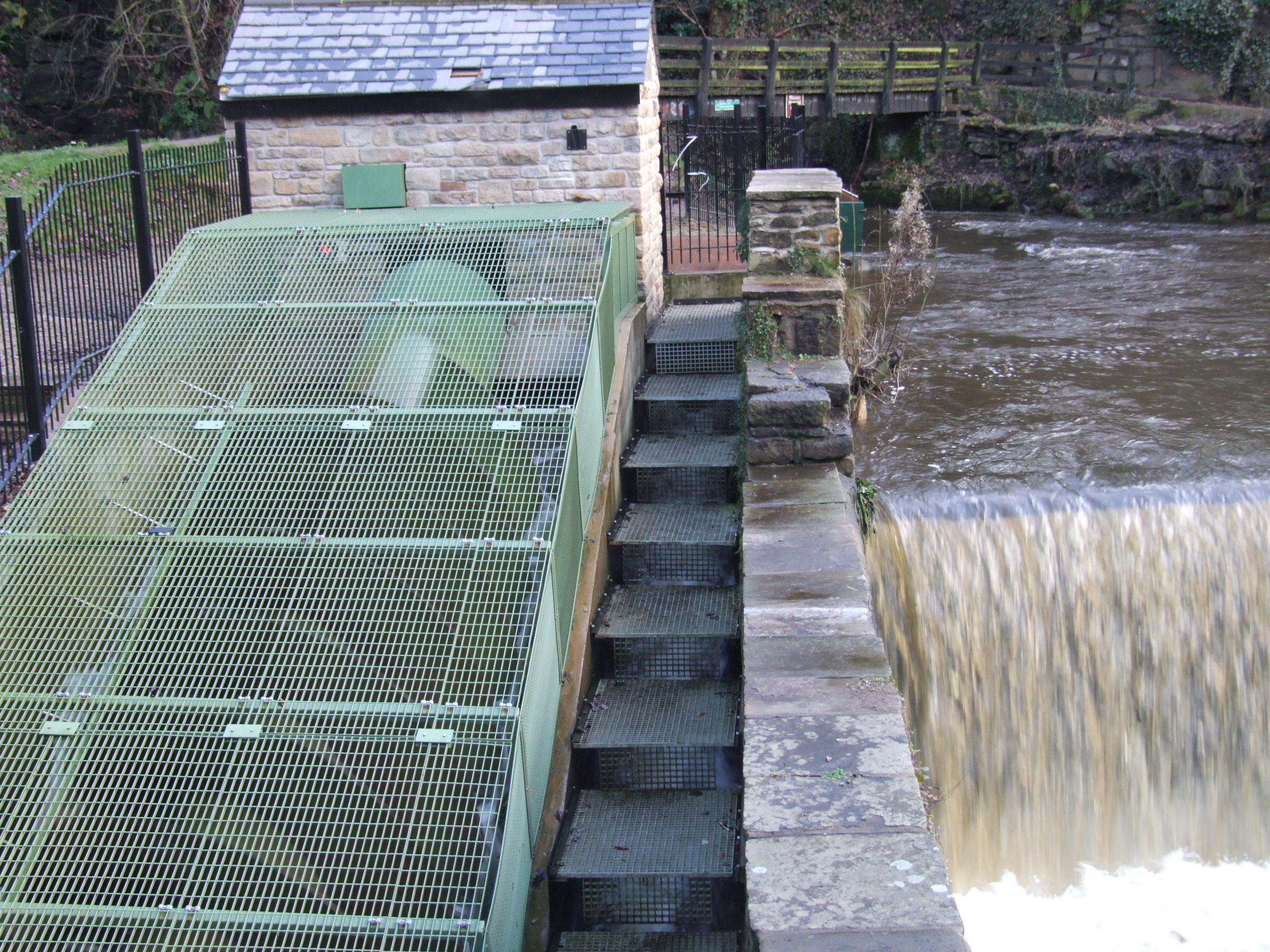 Torrs Hydro, New Mills is in New Mills, a village in the Peak District. It lies close to the confluence of the River Sett and the River Goyt. The Hydro showing the generator house, and the screw. The foot bridge behind is over the Sett. The weir is over the Goyt.